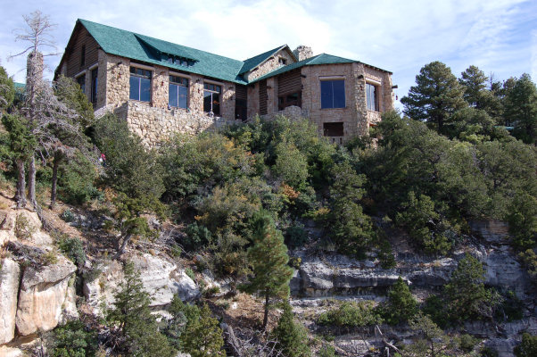 The Grand Canyon Lodge was opened in 1928 as the last of the major buildings on the Union Pacific's "Loop Tour". To the north of the lodge are a series of log cabins for visitors. These cabins are regularly booked to capacity.